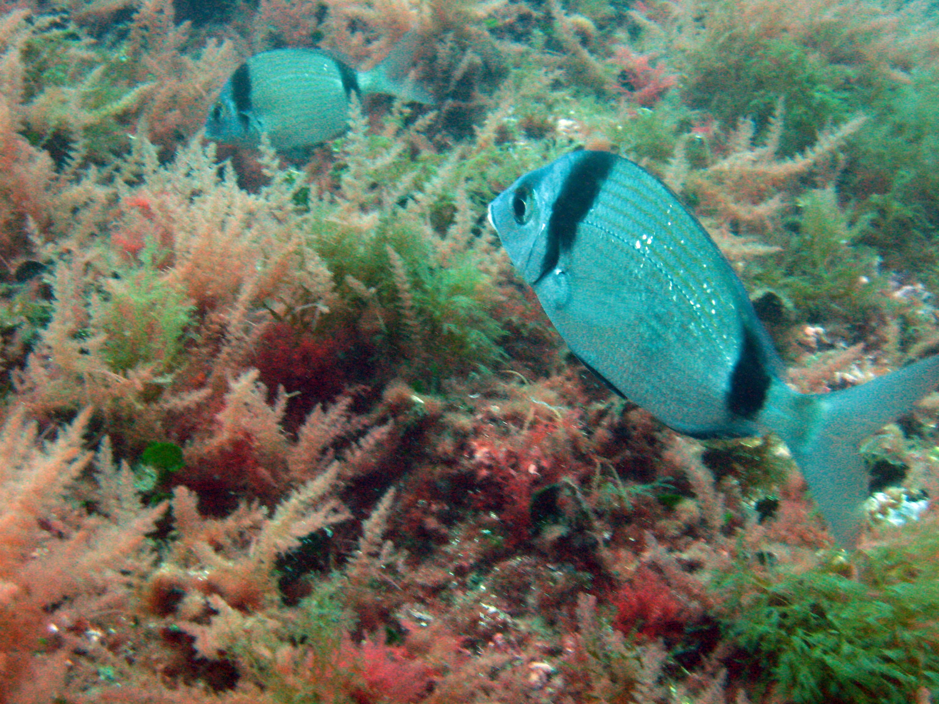 Two two-danded bream Diplodus vulgaris, picture taken in Niolon near Marseilles. In the background, Asparagopsis armata.